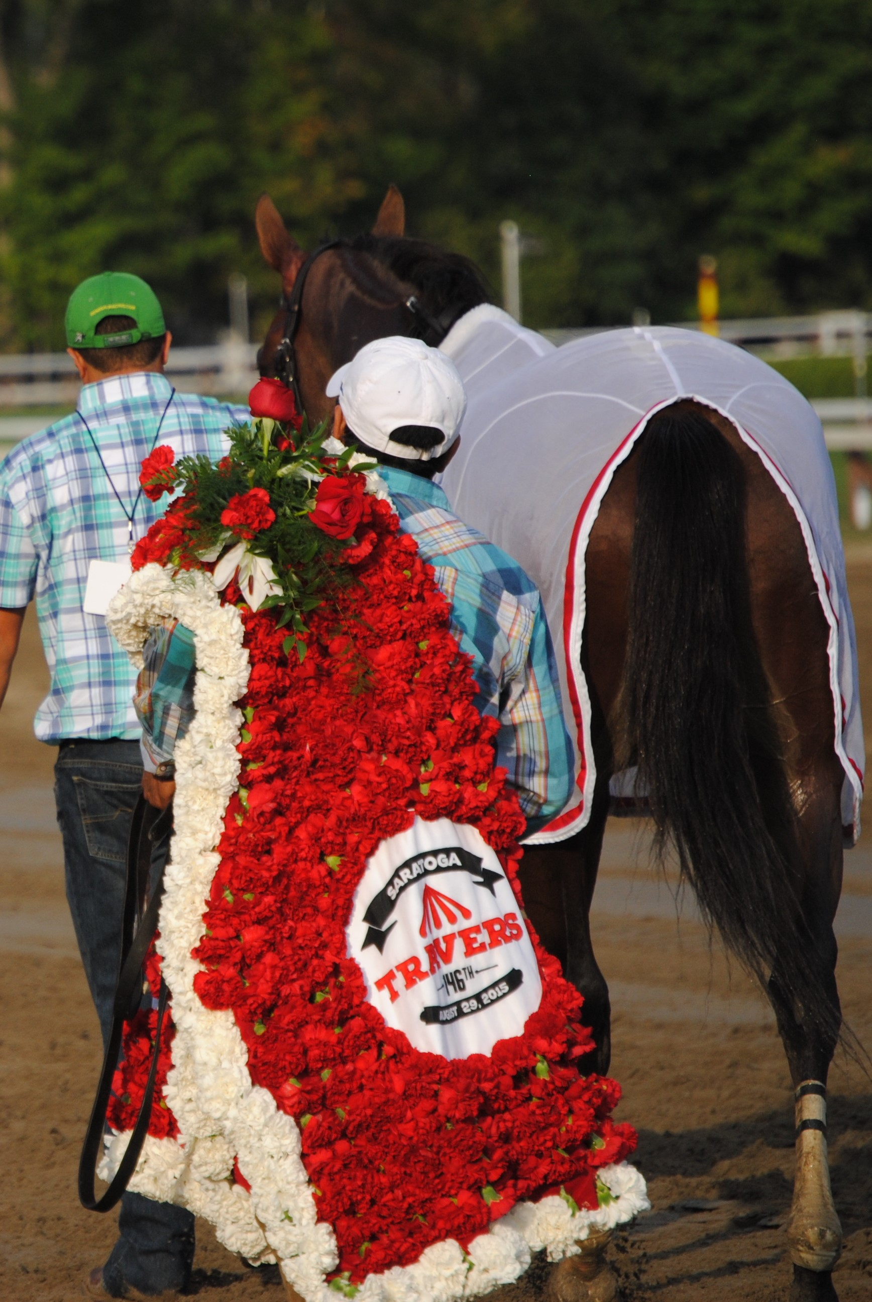 The winner's blanket for the Travers, made of red and white carnations